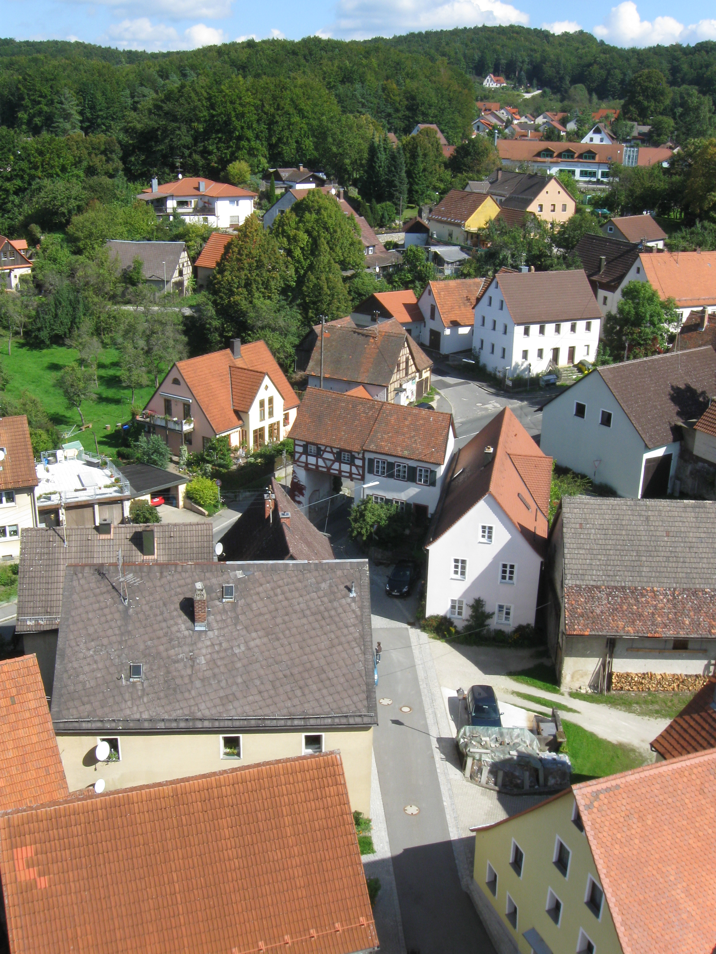 View over Hiltpoltstein (Franconia-Germany) from the castle Hiltpoltstein